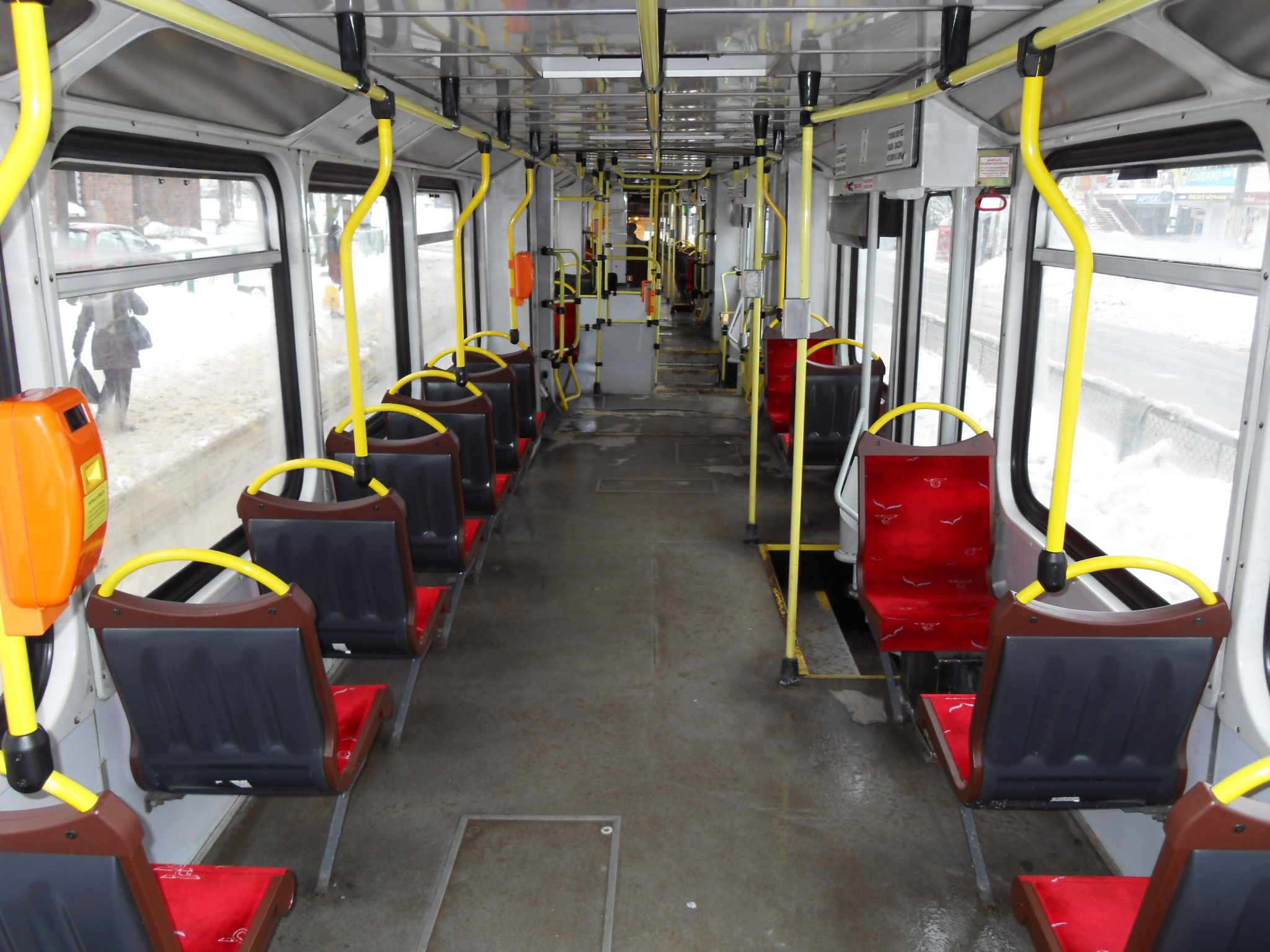 A Konstal 114Na tram interior, Gdańsk (Poland).